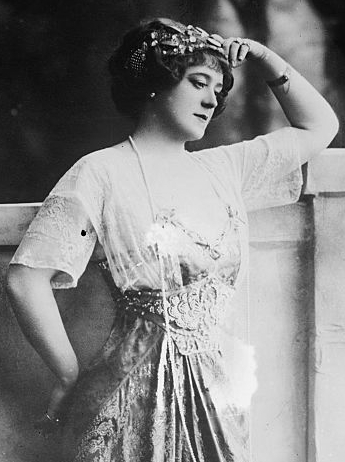 German opera singer Frieda Hempel (1885–1955)